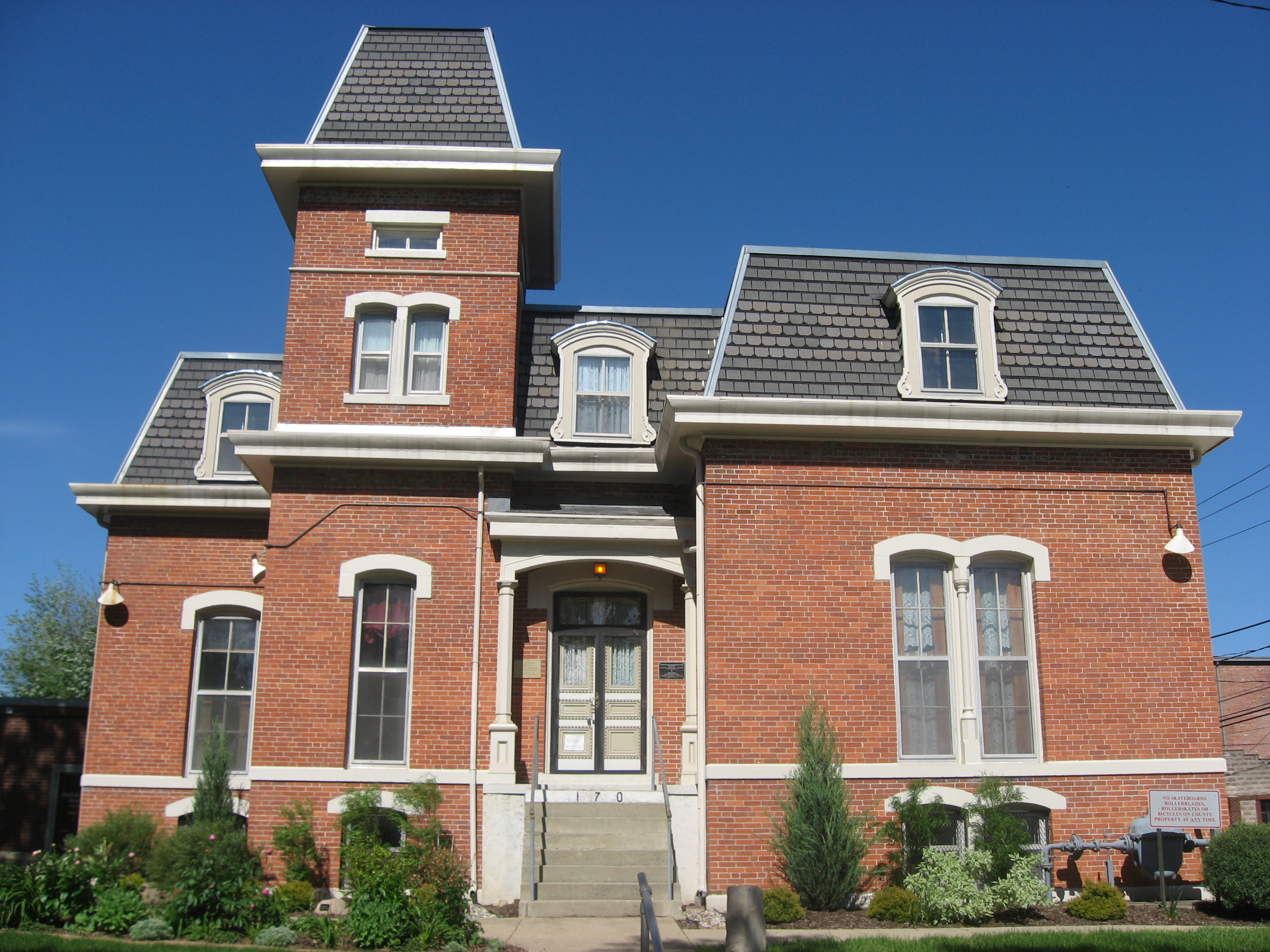 Front of the Hendricks County Jail and Sheriff's Residence (now the Hendricks County Museum), located at 170 S. Washington Street in Danville, Indiana, United States. Built in 1866, it is listed on the National Register of Historic Places.